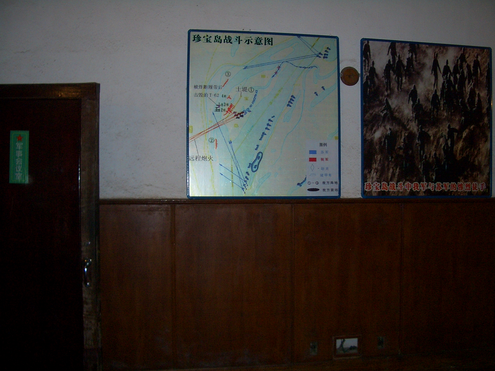 In the tunnels of Project 131: the room labeled by the site managers as the "Military council room", and decorated with the map of the Zhenbao/Damanski Island conflict, and one of the USSR/PRC Heilongjiang border